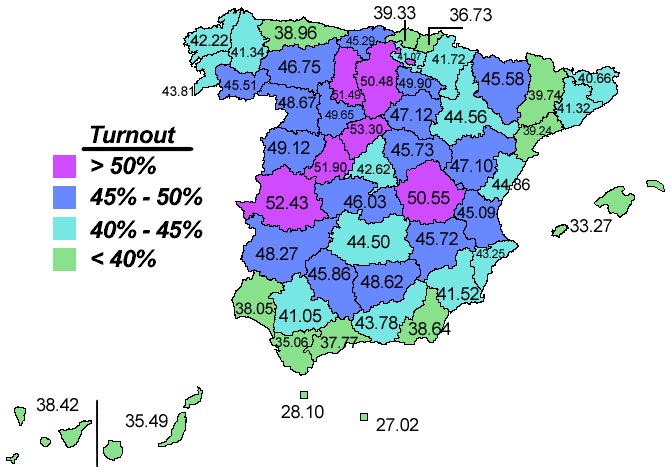 Spanish European Constitution referendum, 2005. Distribution of the turnout by province.